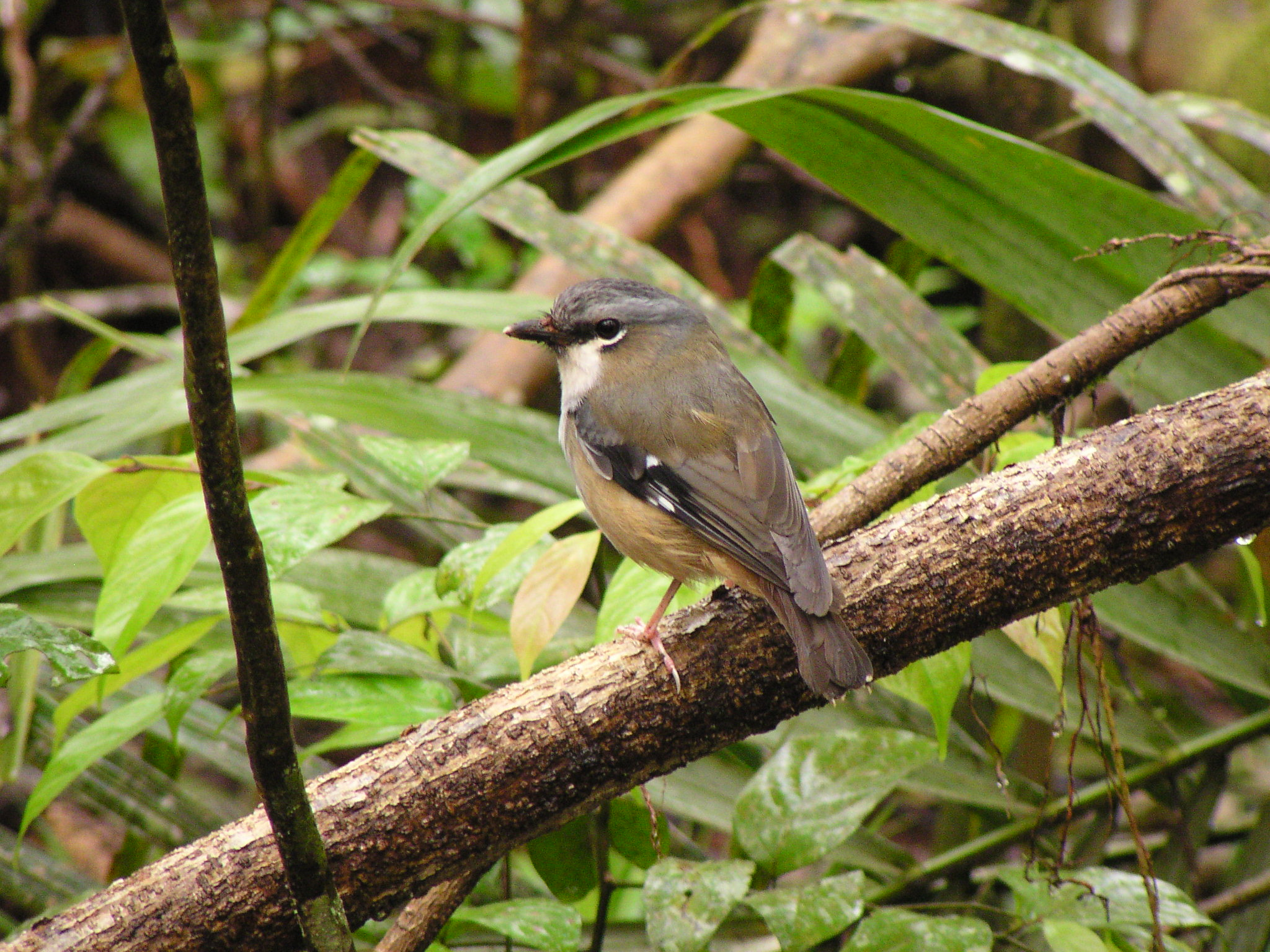 Grey-headed Robin (Heteromyias albispecularis) seen in the rainforest near Malanda